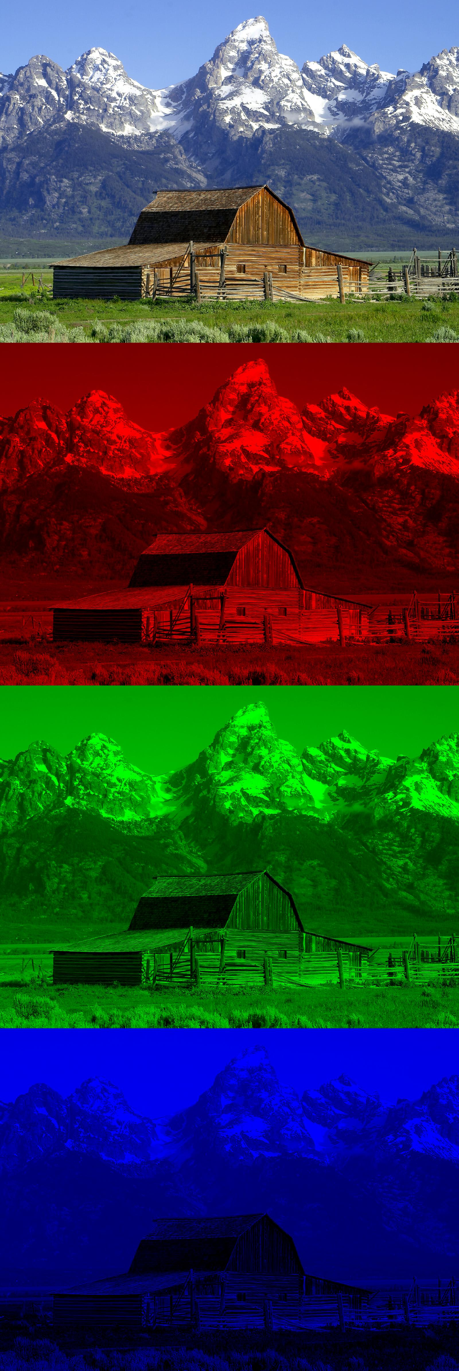 This takes an image (Image:Barns grand tetons.jpg) and displays the red, green and blue elements extracted from it. Note that the white snow is composed of strong red, green and blue; the brown barn is composed of strong red and green with little blue; the dark green grass is composed of strong green with little red or blue; and the light blue sky is composed of strong blue and moderately strong red and green. Based on the (public domain) photo Image:Barns grand tetons.jpg. Code above and resulting output by Mike1024.